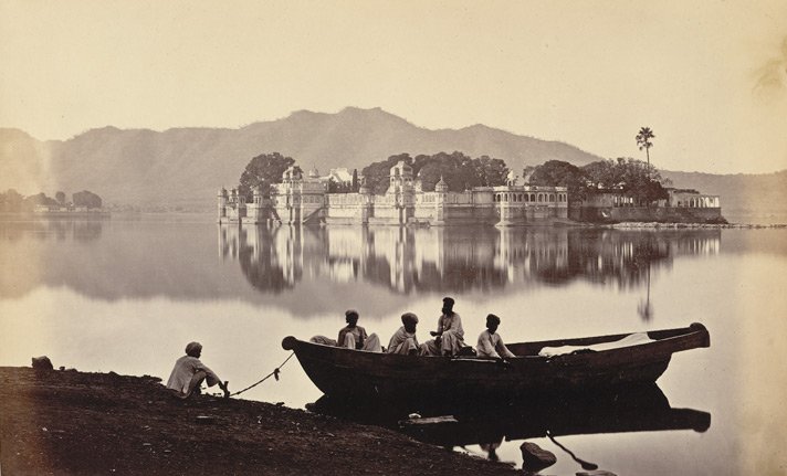 Jag Mandir Palace (from south east) in Udaipur, Rajasthan.